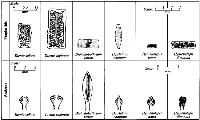 Gravid Proglottids and Scoleces of Cestode Parasites of Humans